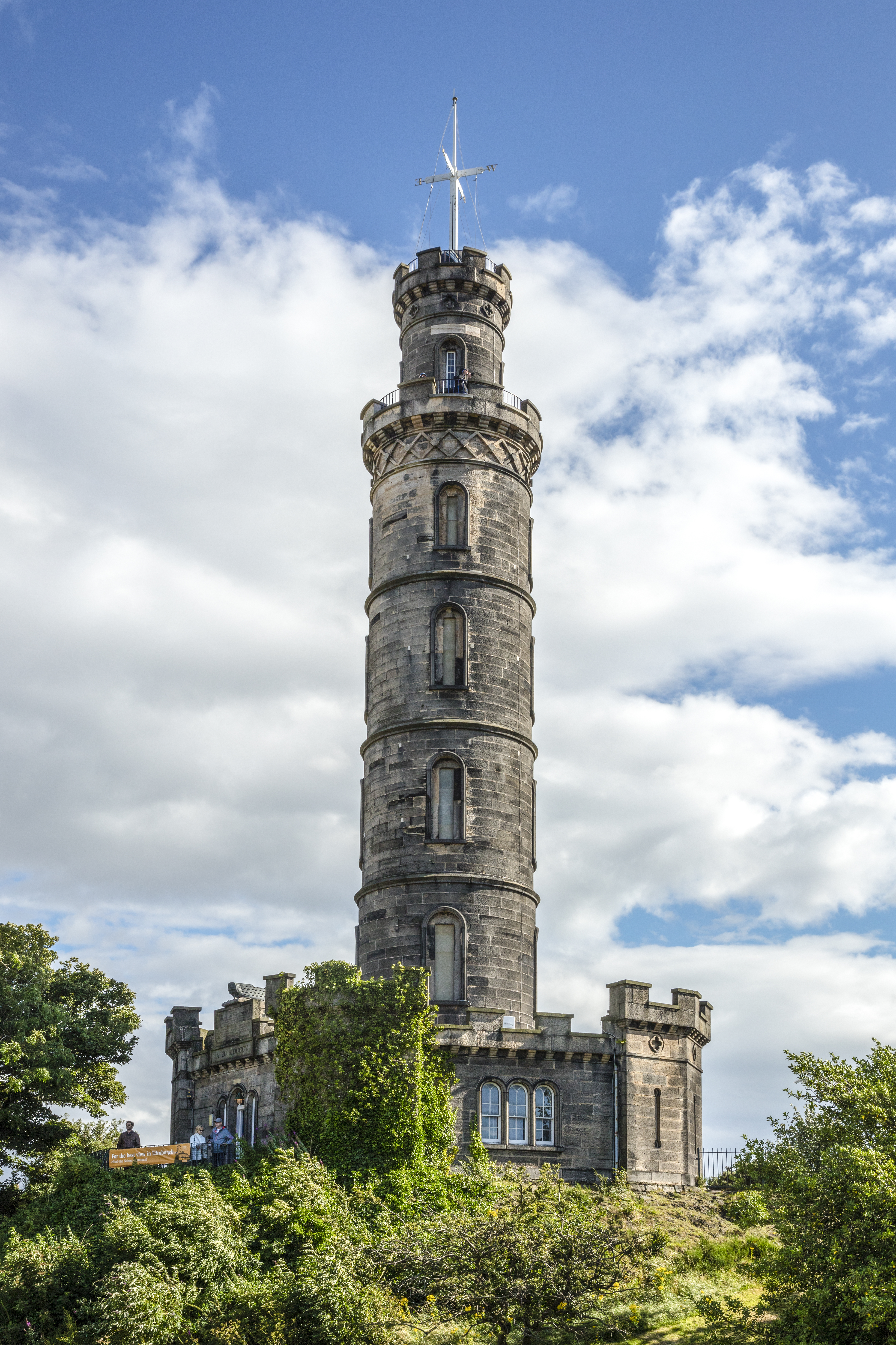 Nelson Monument, Edinburgh Wikidata has entry Q11838983 with data related to this item.